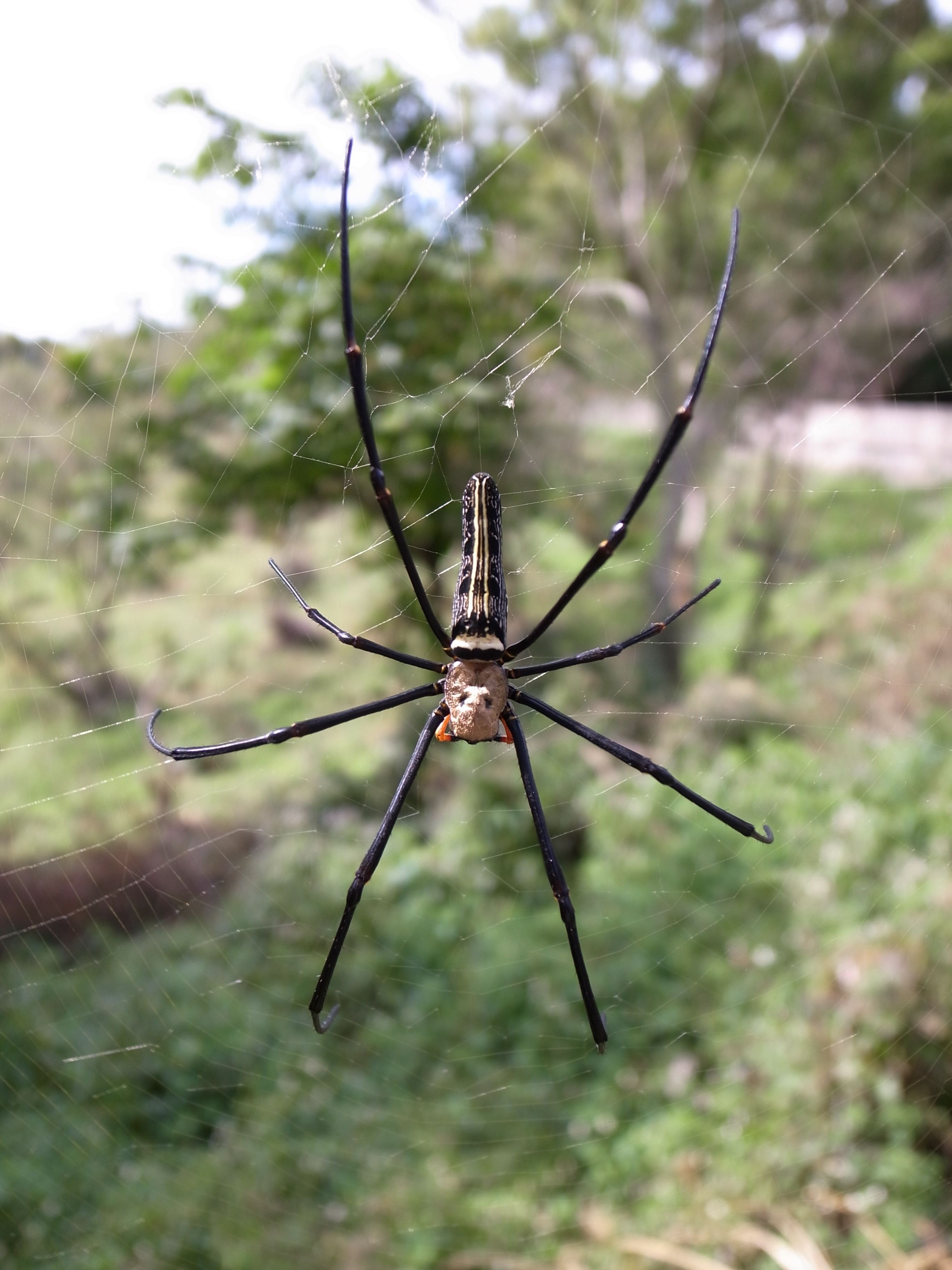 Dorsal side of adult female Nephila pilipes, taking in Taitung County, Taiwan.